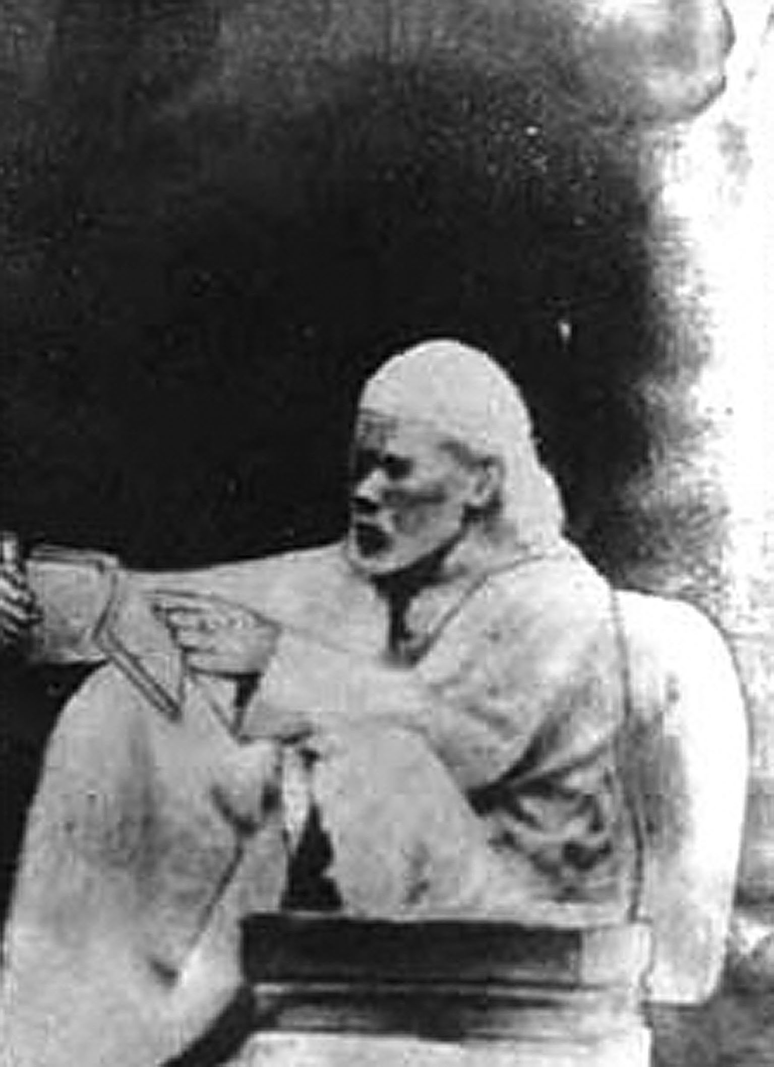 Shirdi Sai Baba, reading